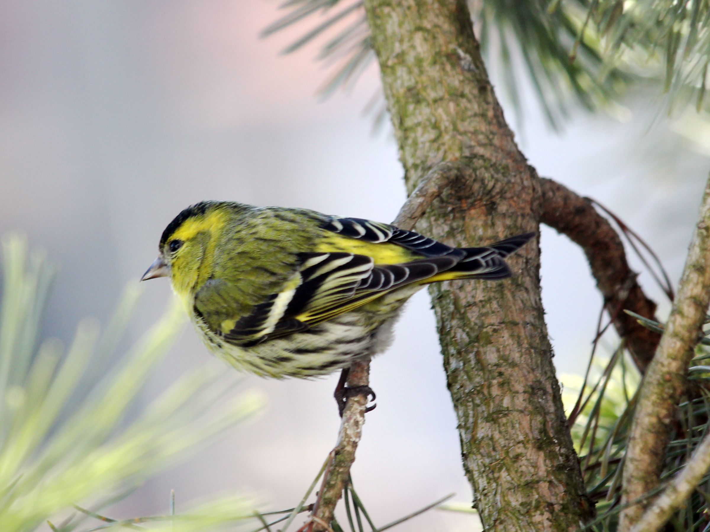 Bird Carduelis spinus in Jaroměř, Czech Republic